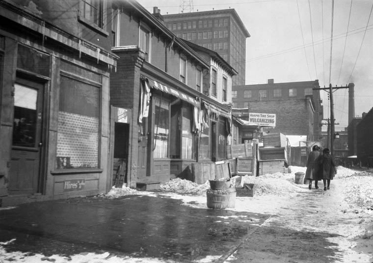 Title / Titre : Chinese printing office, Louisa Street, Toronto, Ontario / Imprimerie chinoise, rue Louisa, Toronto (Ontario) Creator(s) / Créateur(s) : John Boyd Date(s) : February 19, 1923 / 19 février 1923 Reference No. / Numéro de référence : MIKAN 3327389, 3845708 Location / Lieu : Toronto, Ontario, Canada Credit / Mention de source : John Boyd. Library and Archives Canada, PA-086055 / John Boyd. Bibliothèque et Archives Canada, PA-086055